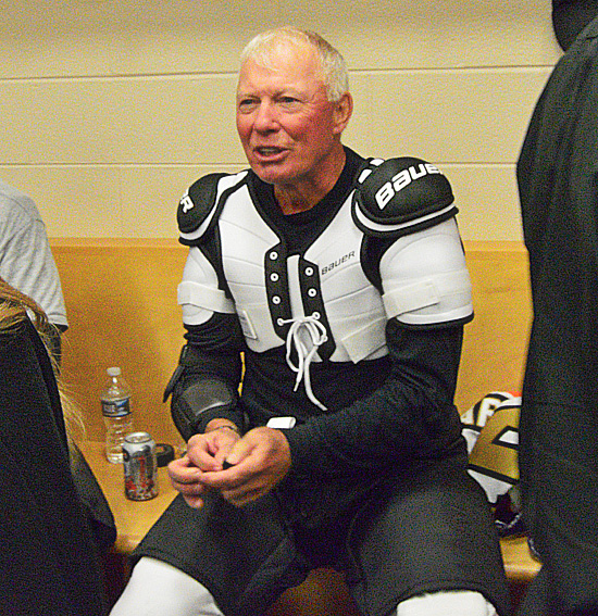 Hockey Hall of Fame center Bob Clarke of the Philadelphia Flyers after his last ever competitive hockey game, the Flyers 50th Anniversary Alumni Game against the Pittsburgh Penguins alumni played at the Wells Fargo Center in Philadelphia on January 14, 2017.